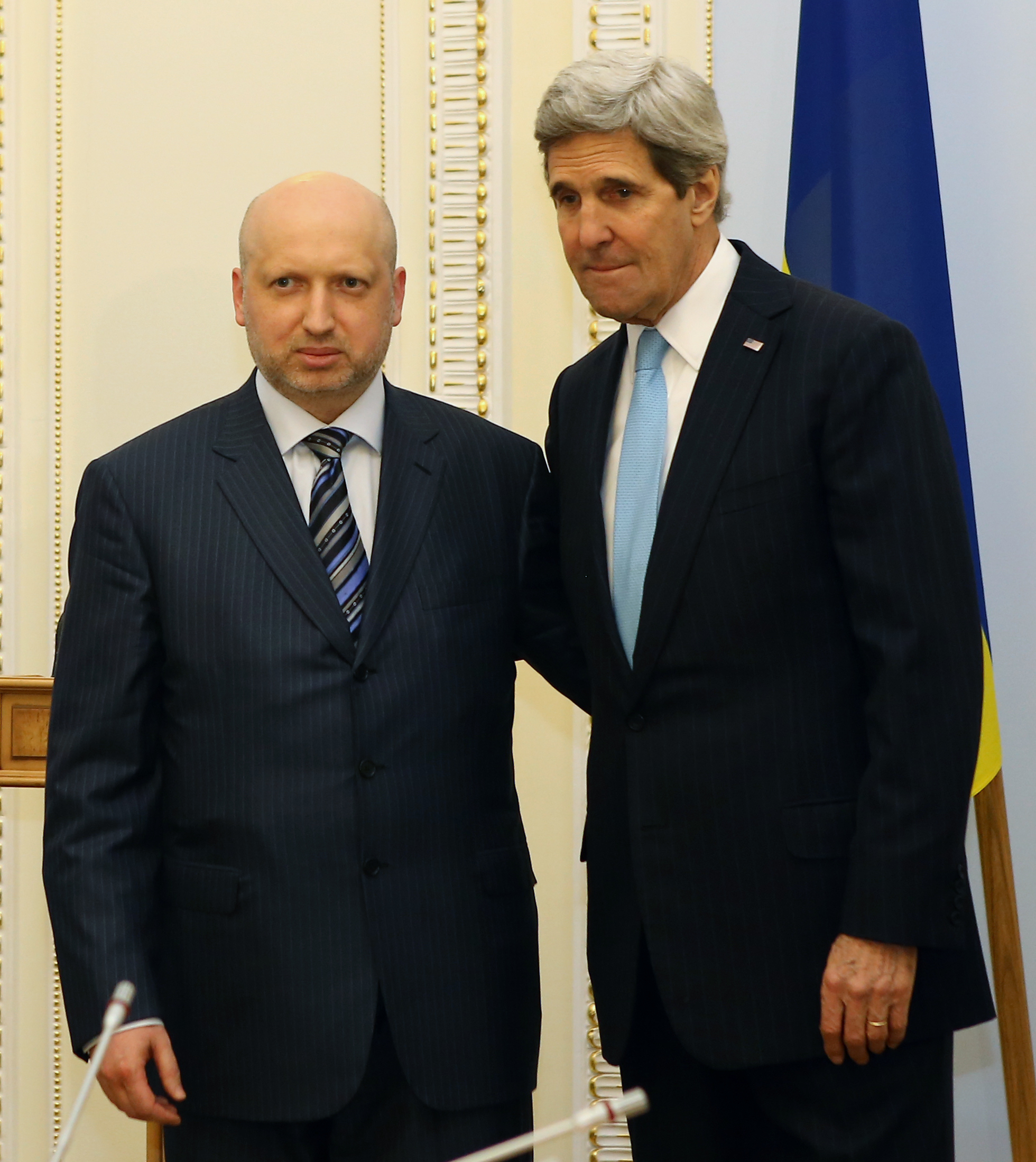 Secretary of State John Kerry at Verkhovna Rada with acting President Oleksandr Turchynov.